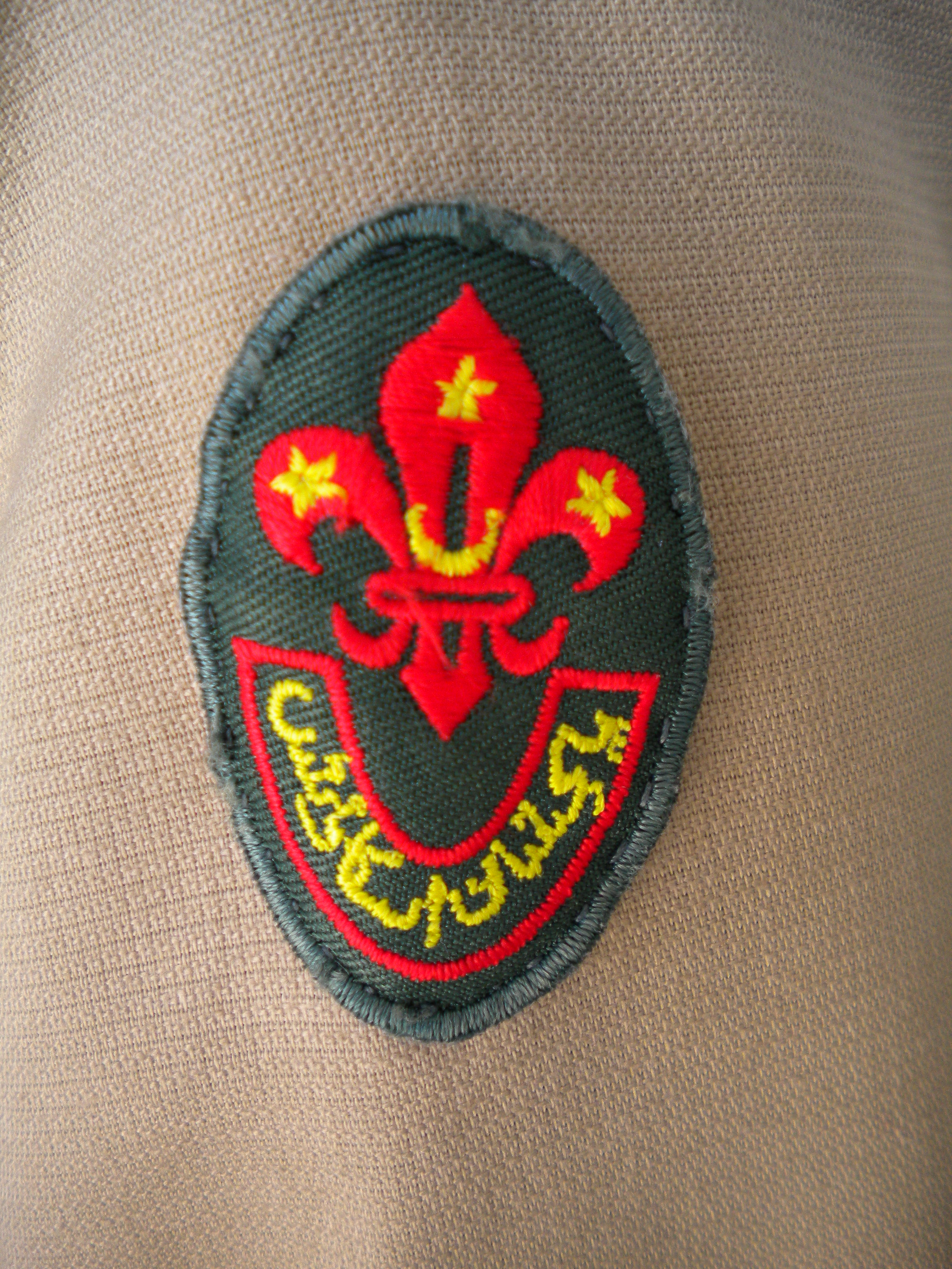 Badge of Pakistan Scouts (Shaheen Scouts)